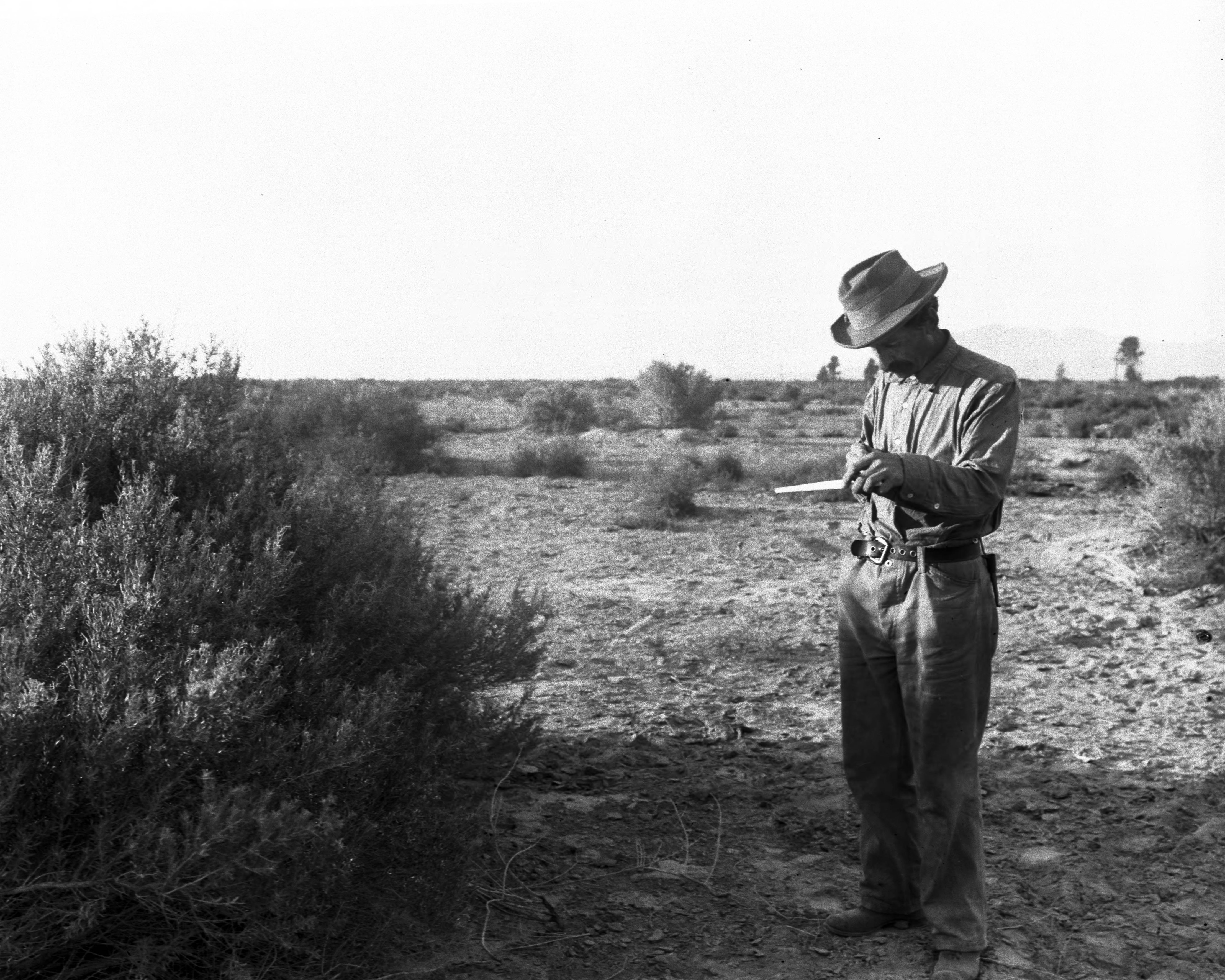 Carl Eytel, artist, sketching on his pad during his trip with George Wharton James to the Colorado River, ca.1900 Photograph of Carl Eytel, artist, sketching on his pad during his trip with George Wharton James to the Colorado River, ca.1900. He wears a hat and his belt is cinched tight around his waist to hold up his loose trousers. The surrounding flat terrain is spotted with scrub brush. A few trees grow in the distance. Photographer: James, George Wharton, 1858-1923 Filename: CHS-4299 Coverage date: circa 1900 Part of collection: California Historical Society Collection, 1860-1960 Format: glass plate negatives Type: images Part of subcollection: Title Insurance and Trust, and C.C. Pierce Photography Collection, 1860-1960 Repository name: USC Libraries Special Collections Accession number: 4299 Rights: Digitally reproduced by the USC Digital Library; From the California Historical Society Collection at the University of Southern California Archival file: chs_Volume96/CHS-4299.tiff Repository address: Doheny Memorial Library, Los Angeles, CA 90089-0189 Geographic subject (country): USA Subject (naf): Eytel, Carl, 1862-1925 Publisher (of the digital version): University of Southern California. Libraries Subject (adlf): deserts Repository Contributing entity: California Historical Society Date created: circa 1900 Call number: CHS-4299 Format (aat): photographs Geographic subject (state): California Legacy record ID: chs-m16748 Access conditions: Send requests to address or e-mail given. Phone (213) 821-2366; fax (213) 740-2343. Geographic subject: rivers: Colorado River Format (aacr2): 1 photograph : glass photonegative, b&w ; 17 x 21 cm. Subject (lcsh): Deserts; Artists